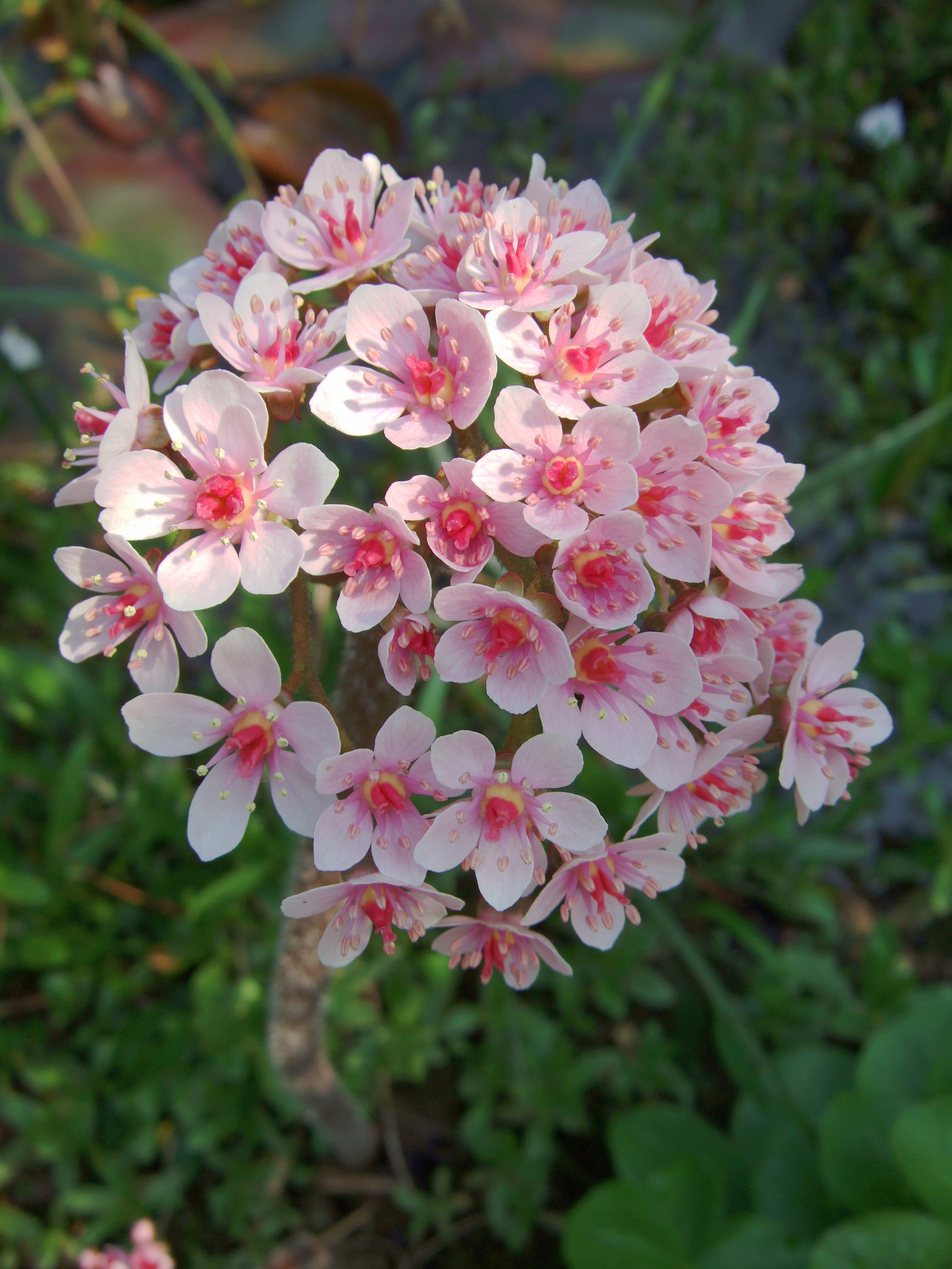 Flowers of Darmera peltata on a single flower stem